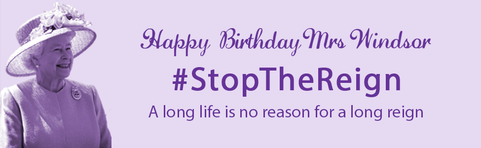 A 2016 protest meme by the British republican activist group Republic on the occasion of queen Elizabeth II's 90th birthday. The group addresses her as an ordinary, equal citizen as "Mrs. Windsor", and goes on to argue her long life does not justify being head of state for so long, and that the monarchy should be abolished.